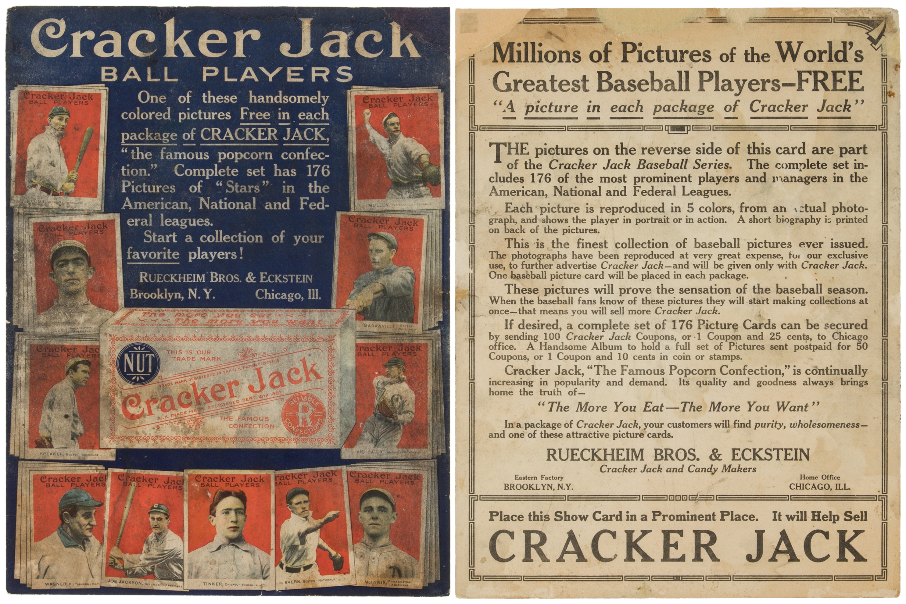 Cracker Jack Baseball Cards Advertising Sign